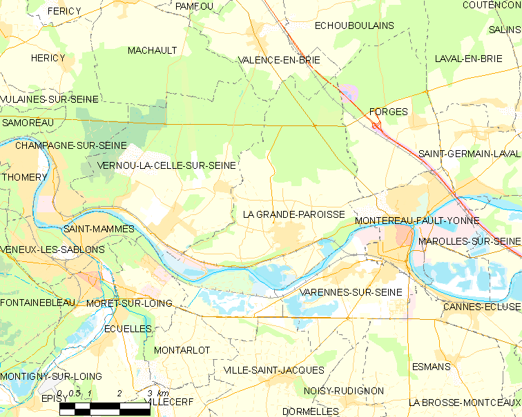 Map of French municipality La Grande-Paroisse